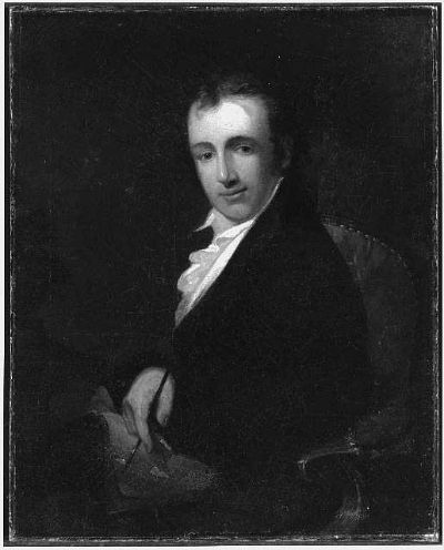 Self Portrait. about 1795. By Henry Sargent, American, 1770–1845. 86.68 x 69.53 cm (34 1/8 x 27 3/8 in.). Oil on canvas. Museum of Fine Arts, Boston.